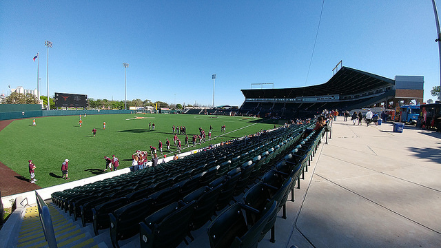 UFCU Disch-Falk Field in Austin, TX. Home of the University of Texas Longhorns baseball team.